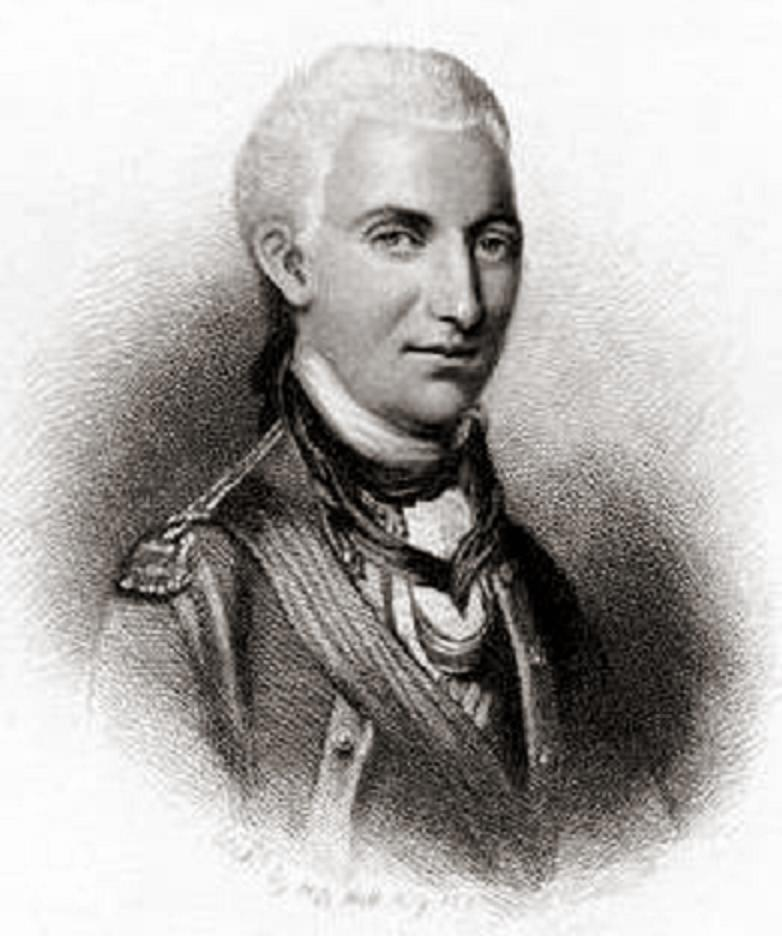 Hans Christian Febiger Febiger was born October 19, 1749 on Funen Island, Denmark. He was an American Revolutionary War commander, confidante of General George Washington and an original member of the Society of the Cincinnati. Known by the moniker "Old Denmark", Febiger also served as Treasurer of Pennsylvania from November 13, 1789 until his death on September 20, 1796.